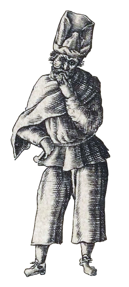 Detail with the French street actor Tabarin from the title page from his Inventaire universel des oeuvres de Tabarin, published in 1622